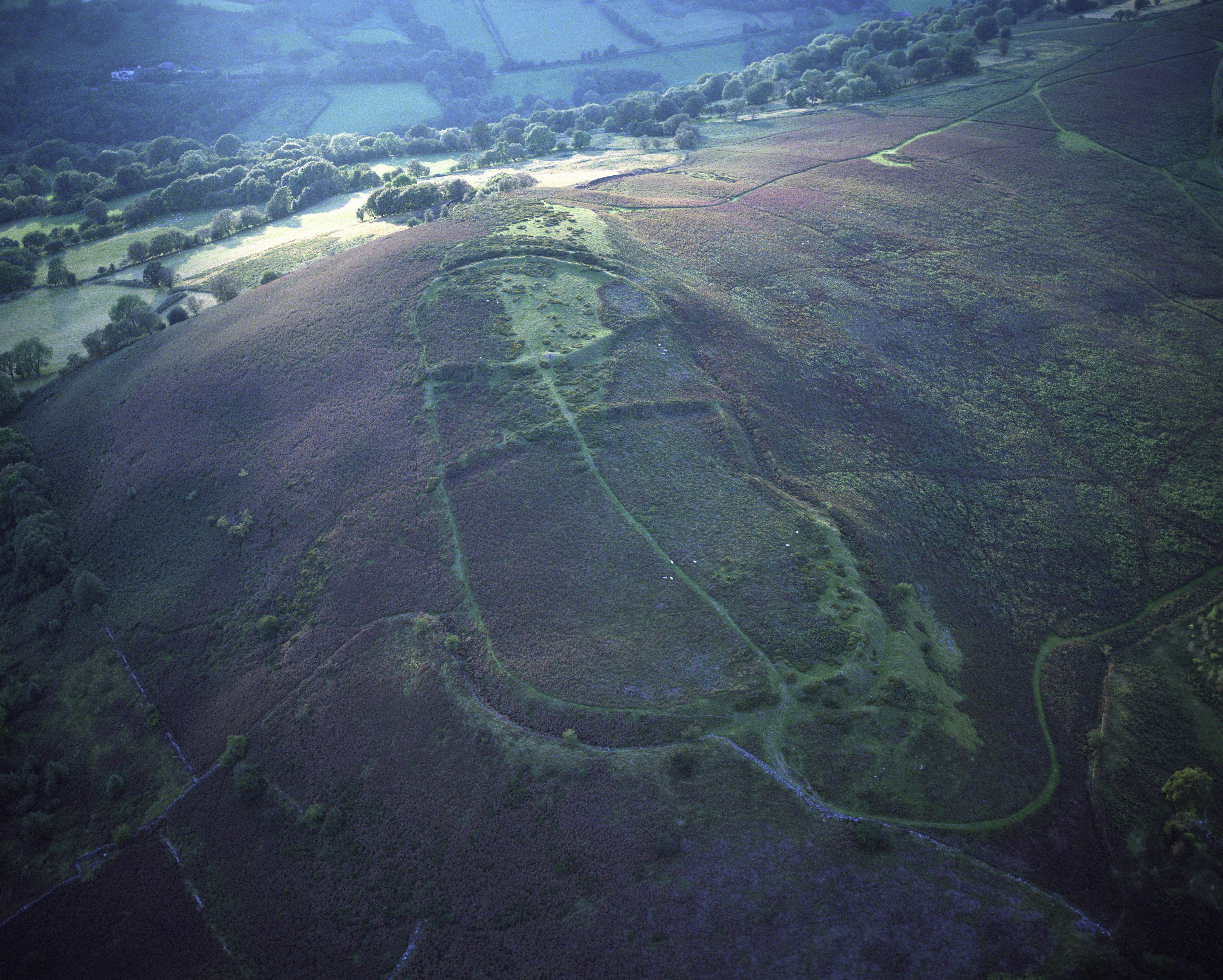 Twyn y Gaer Iron Age Hill Fort, situated atop the Gaer mountain, in the Black Mountains, between the villages of Patrishow (Powys) and Cwmyoy (Monmounthshire), in S-E Wales. Aerial shot taken along the east-west axis. The various sections of the fort are easily visible, as is the abundance of purple heather. Beyond the hill is the Grwyne Fawr valley.